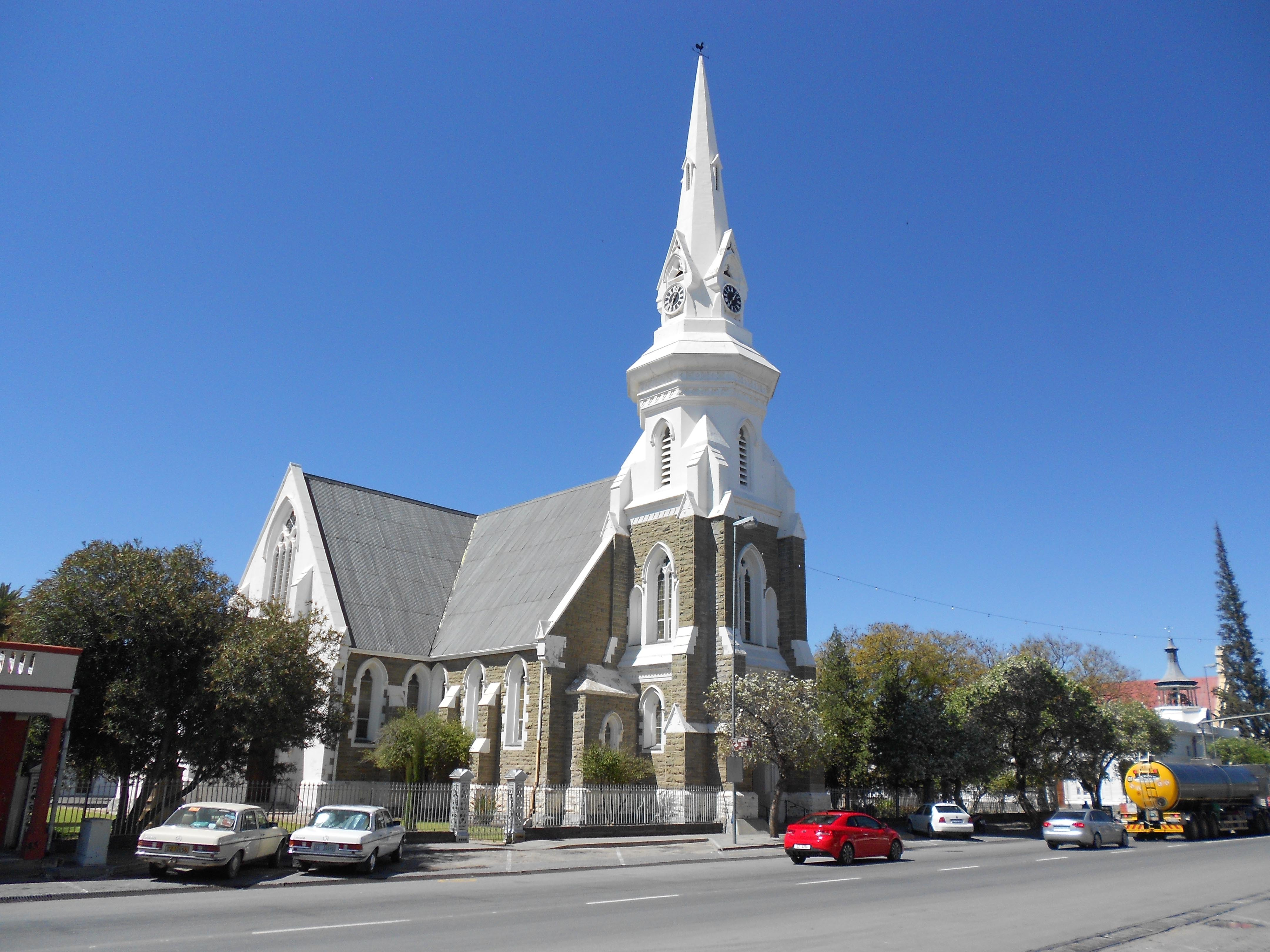 Dutch Reformed Church, 85 Donkin Street, Beaufort West This media shows a South African Protected Site with SAHRA file reference 9/2/010/0002.